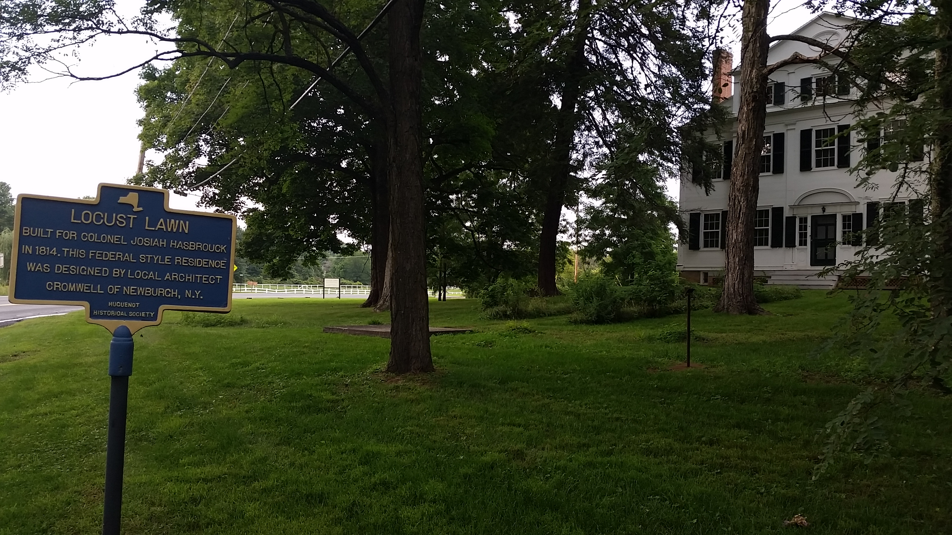 New York State historical marker for Locust Lawn Estate, New Paltz, New York